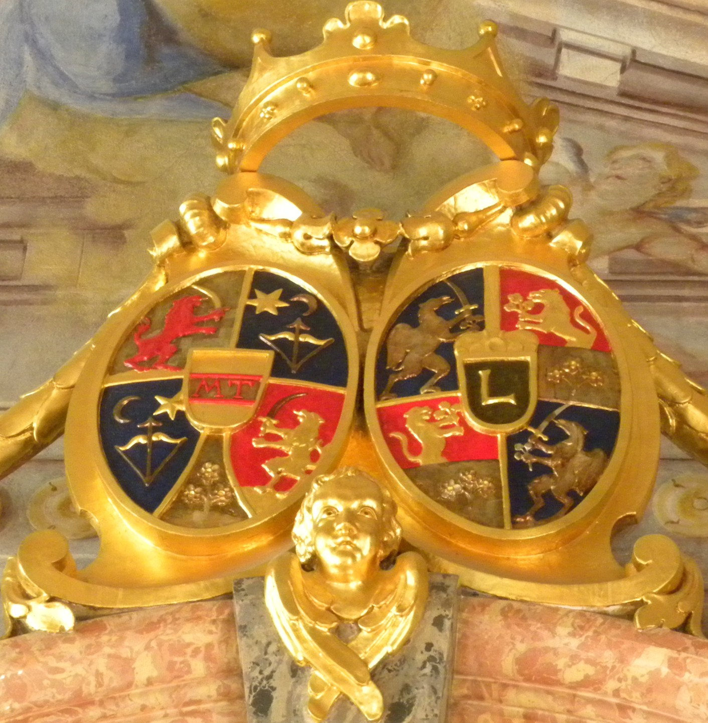 Coats of arms of Antal Grassalkovich and Mária Anna Esterházy, Grassalkovich Palace, Bratislava. Chapel.